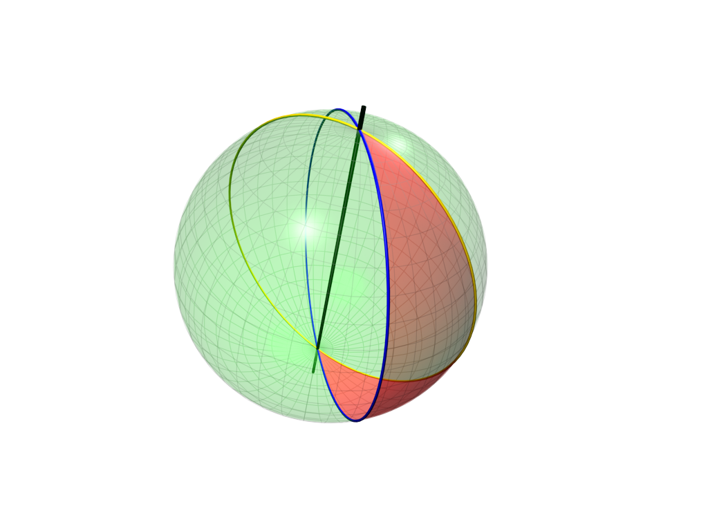 Illustration of the geometrical sperical zone